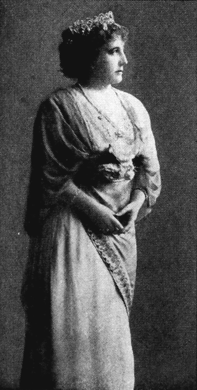 Thuille - Lobetanz - Johanna Gadski as the princess Title: The Victrola book of the opera : stories of one hundred and twenty operas with seven-hundred illustrations and descriptions of twelve-hundred Victor opera records Year: 1917 (1910s) Authors: Victor Talking Machine Company Rous, Samuel Holland Subjects: Operas Publisher: Camden, N.J. : Victor Talking Machine Co. Text Appearing Before Image: LOBETANZ PLAYING FOR THE PRINCESS ACT I (German) LOBETANZ (English) MERRYDANCE MUSICAL PLAY IN THREE ACTS Text by Otto Julius Bierbaum ; music by Ludwig Thuille. First production at Mann-heim, Germany, 1898. First production in America November 18, 1911, with Gad ski,Jadlowker, Witherspoon and Murphy. Cast LOBETANZ Tenor THE PRINCESS Mezzo-Soprano THE KING Bass THE FORESTER, ) THE HANGMAN. ( Speaking Parts The Judge. J Girls, musicians, prisoners, two heralds, the people. Text Appearing After Image: Time and Place : Germany in the Middle Ages. GADSKI AS THE PRINCESS The story of Lobetanz resembles an old fairy tale in itssimplicity, the Prince Charming in this instance being a wander-ing musician, and the ending, as in all good fairy stories, beingof the lived-happy-ever-after variety. The curtain rises on a rose fete, which young girls are pre-paring in anticipation of the arrival of the King and his daugh-ter. The Princess is ill, and the King has appointed a dayof festivity in the hope that it will revive her. Lobetanz, awandering musician, strolls into the Kings rose garden, wherethe preparations are being made, and stays to watch the royal VICTROLA BOOK OF THE OPERA —THUILLES LOBETANZ procession, which is accom-panied by poets and singers.The musicians play and singto the Princess, but all theirefforts fail to please her. Sud-denly a violin is heard froman arbor in the rear of thegarden. The Princess is im-mediately fascinated with themusic, and Lobetanz comesforward, his